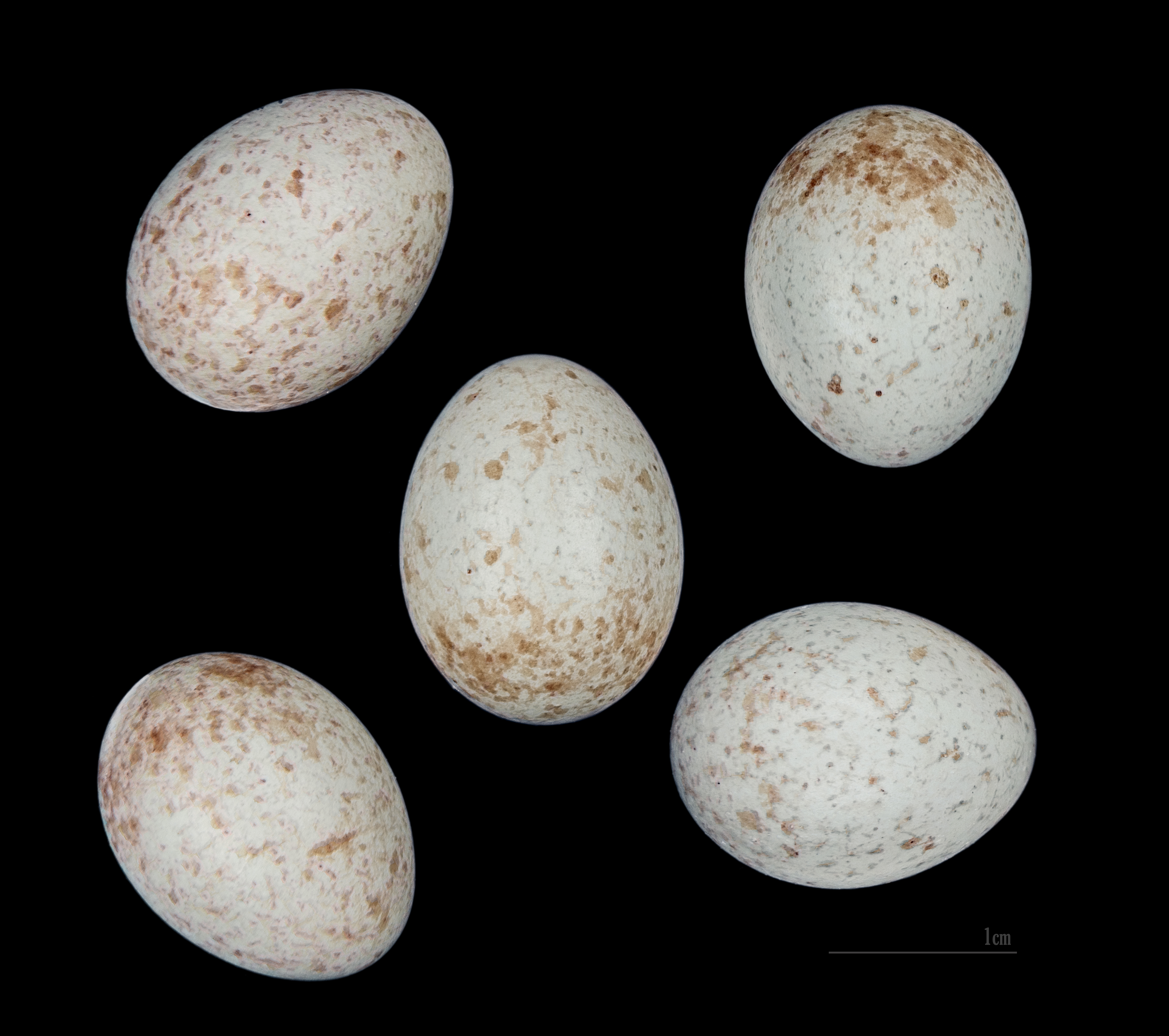 Egg of Saxicola rubicola. Collection of Henri Heim de Balsac /Jacques Perrin de Brichambaut.